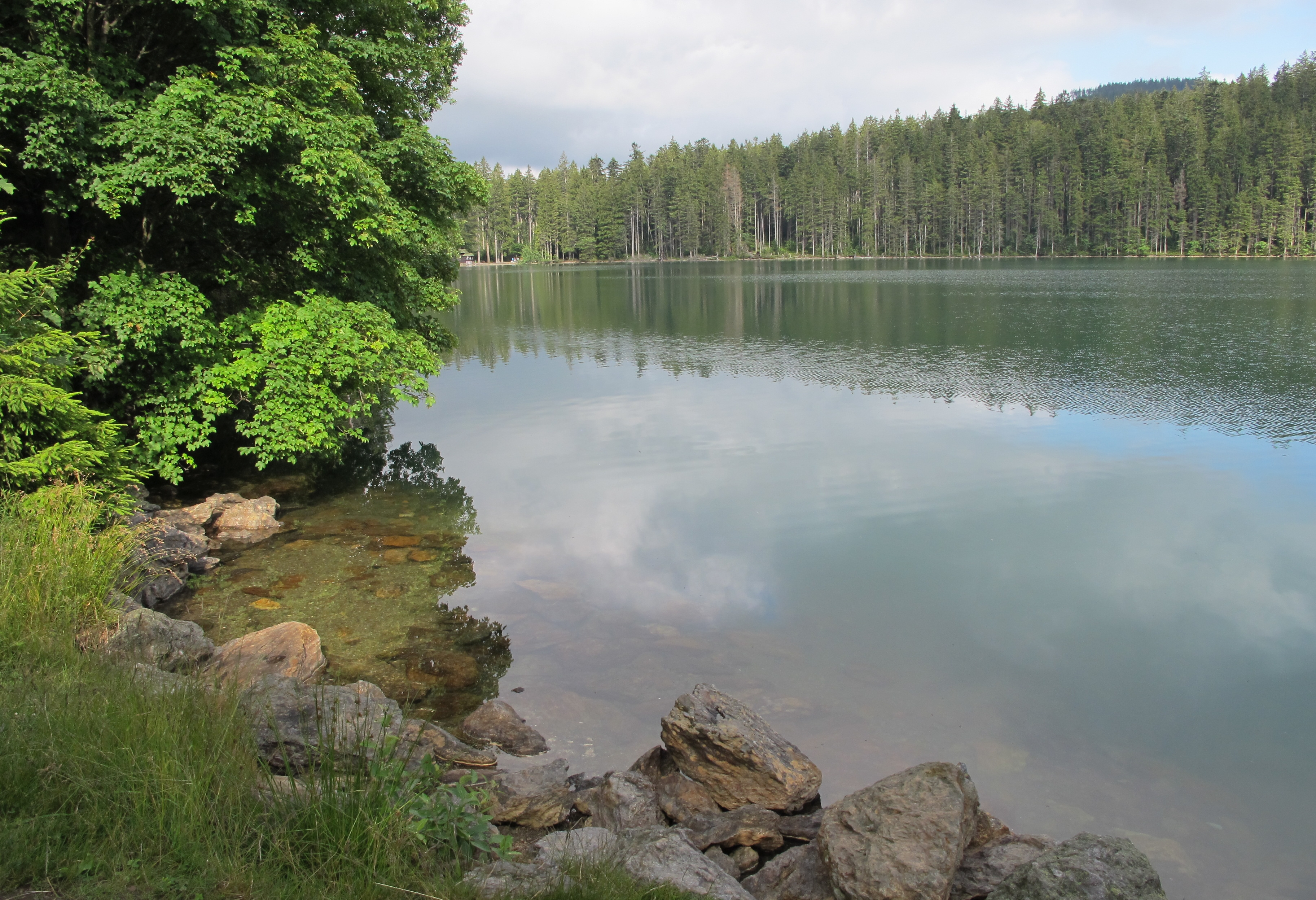 Lake "Černé jezero" - in national nature reserve Černé a Čertovo jezero near Železná Ruda in Klatovy District